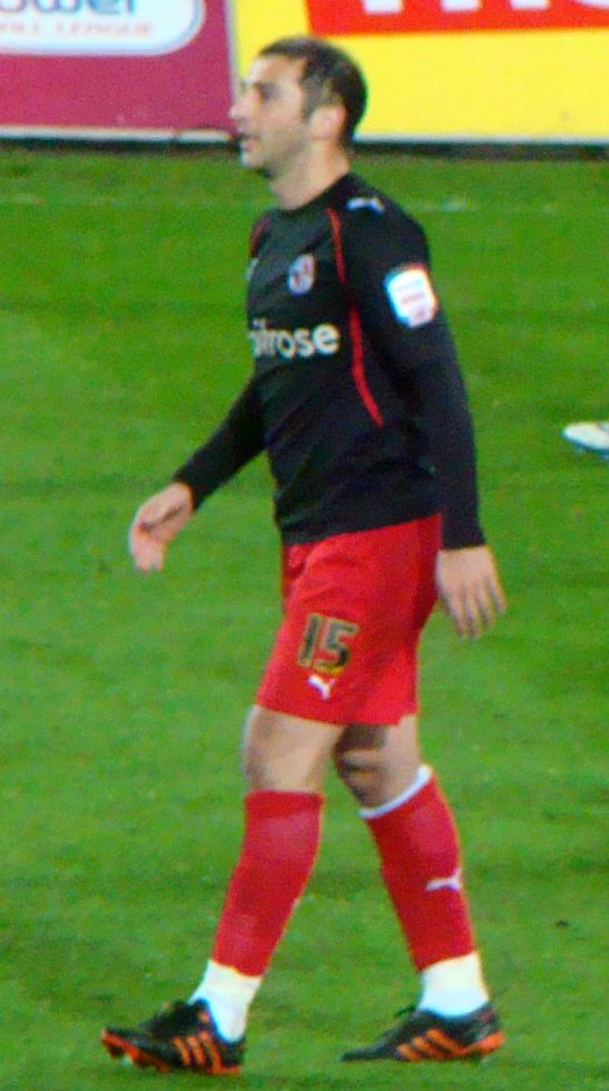 17/05/11 - Cardiff V Reading, Championship Semi-Final 2nd Leg, Cardiff City Stadium, Cardiff, Wales